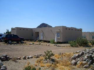 Modern Desert Mobile Home/ Manufactured House